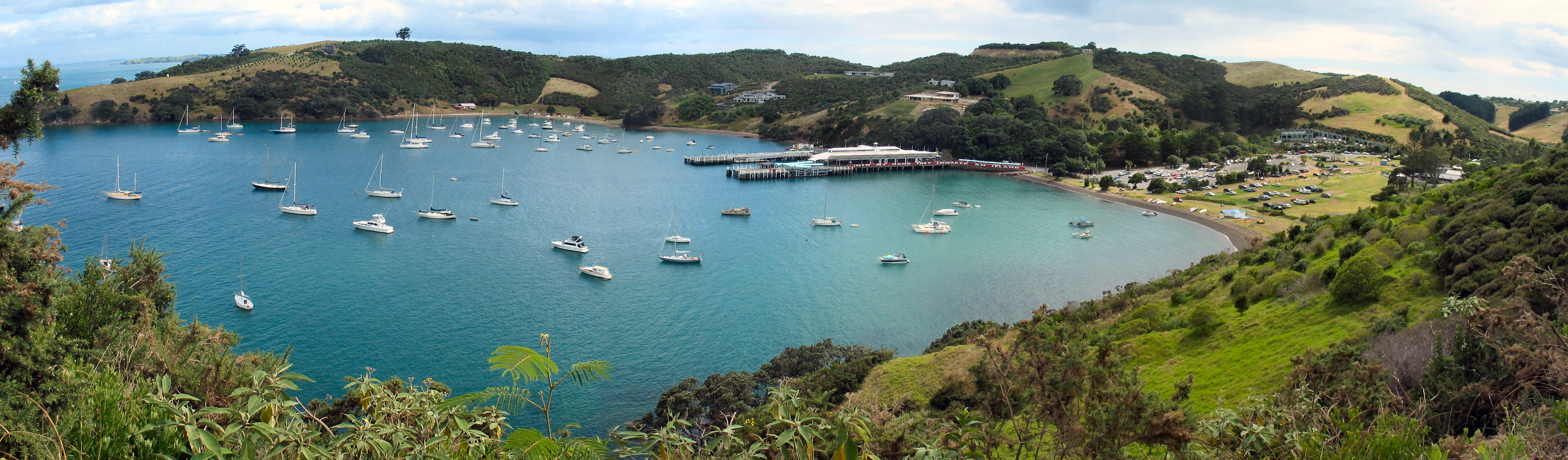 The valley and bay of Matiatia, Waiheke Island, Auckland, New Zealand.